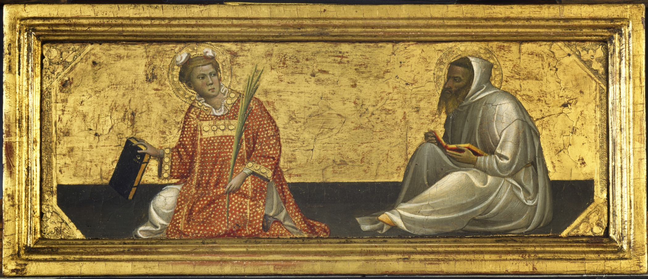 Italian painting of Saints Stephen and Bruno